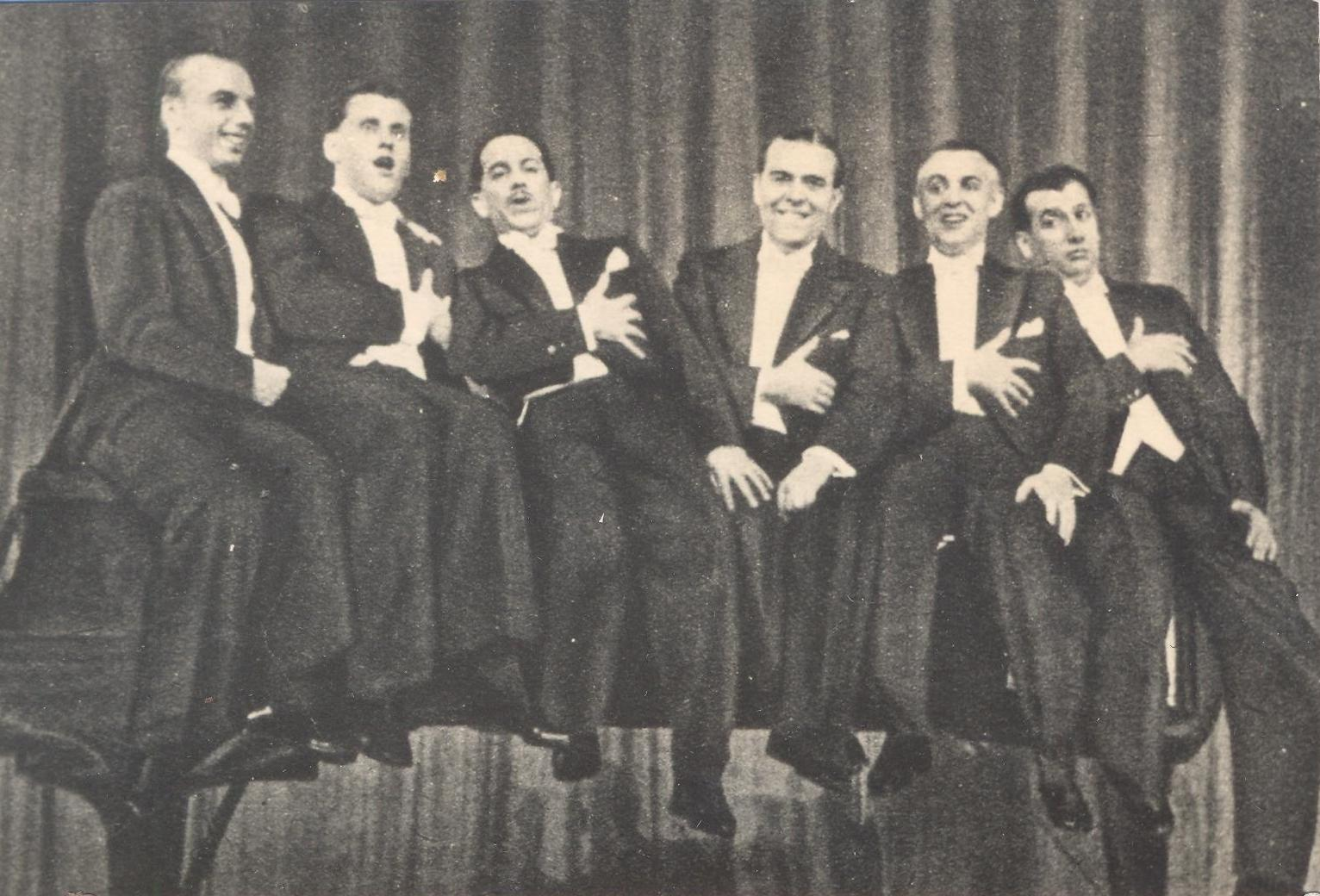 Comedian Harmonists, 1938